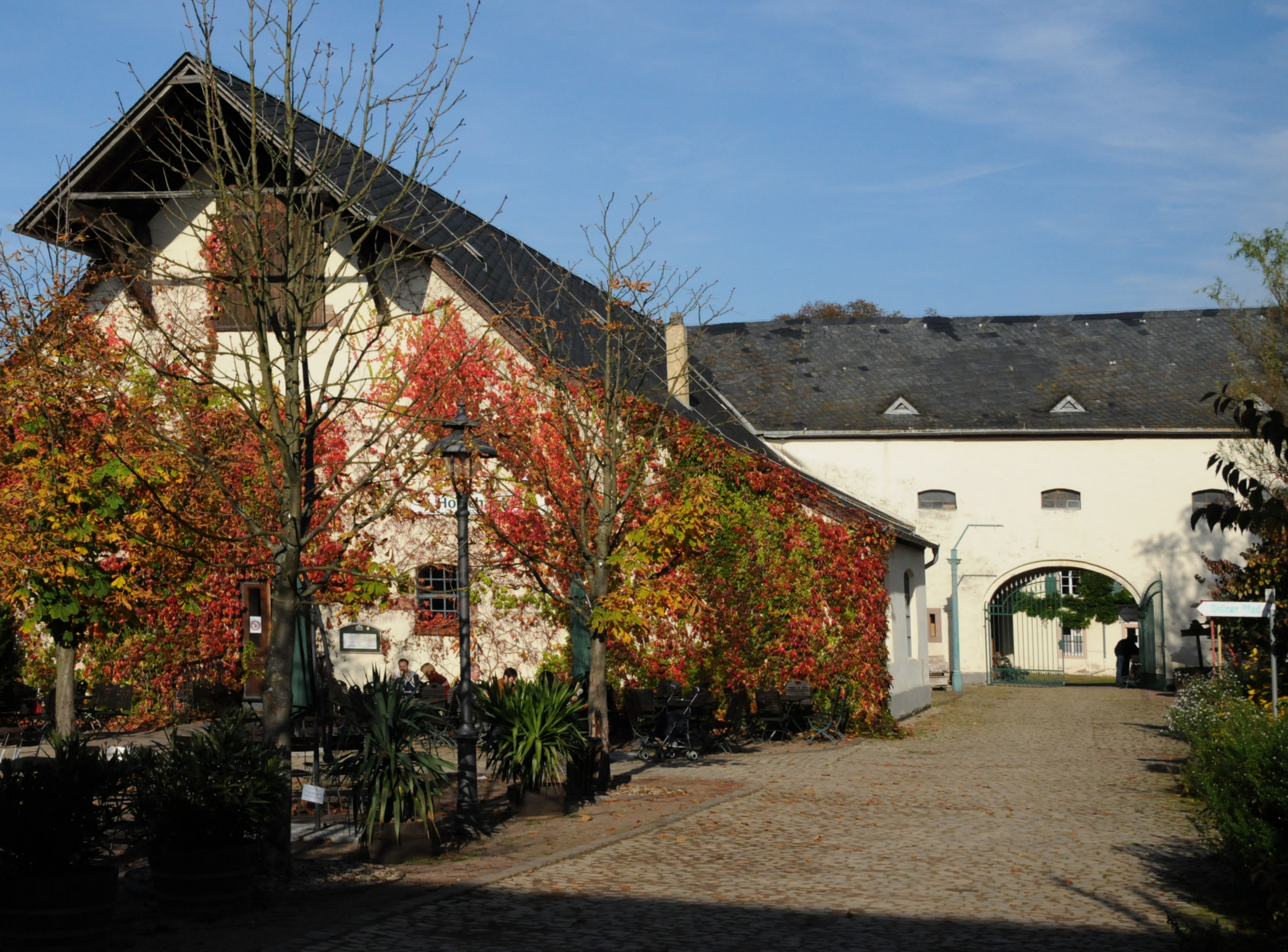 Open air museum roscheider hof, konz, main builing and museum restaurant